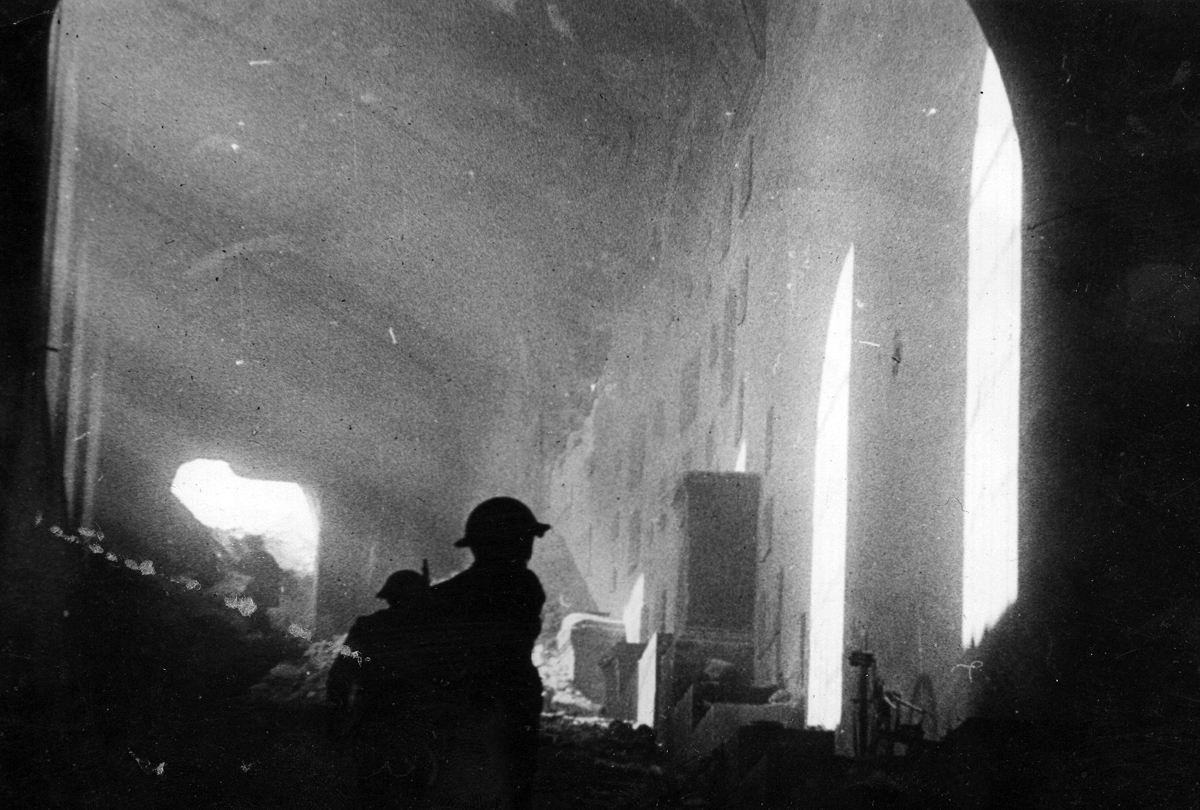 Polish soldiers inside the ruined Monte Cassino Monastery